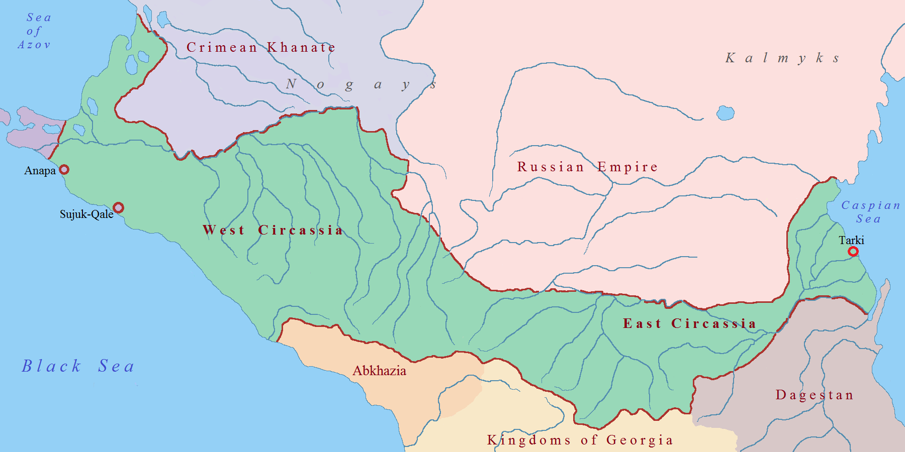 Circassia in 1700